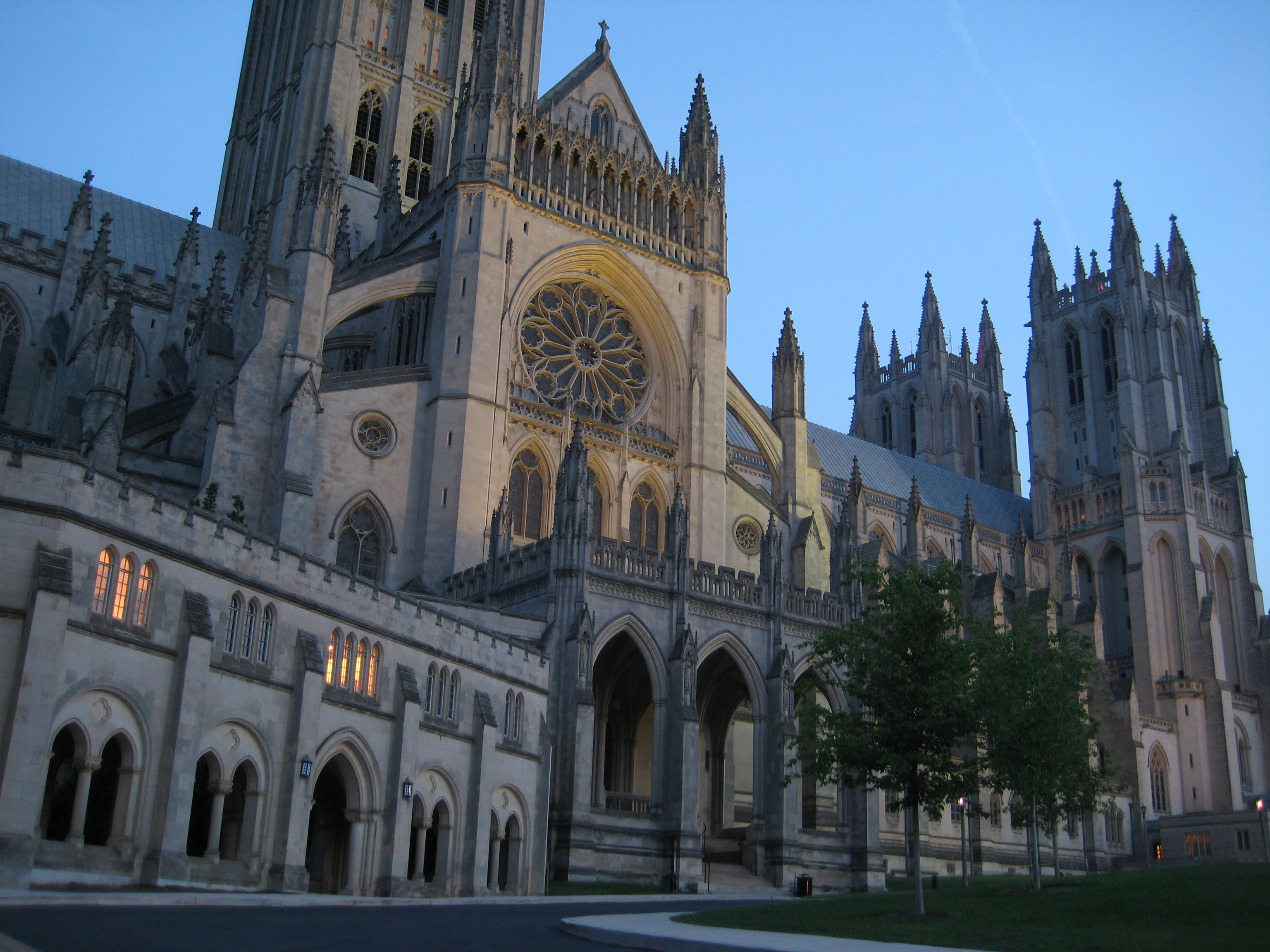 Außenansicht der Washington National Cathedral in Washington, DC